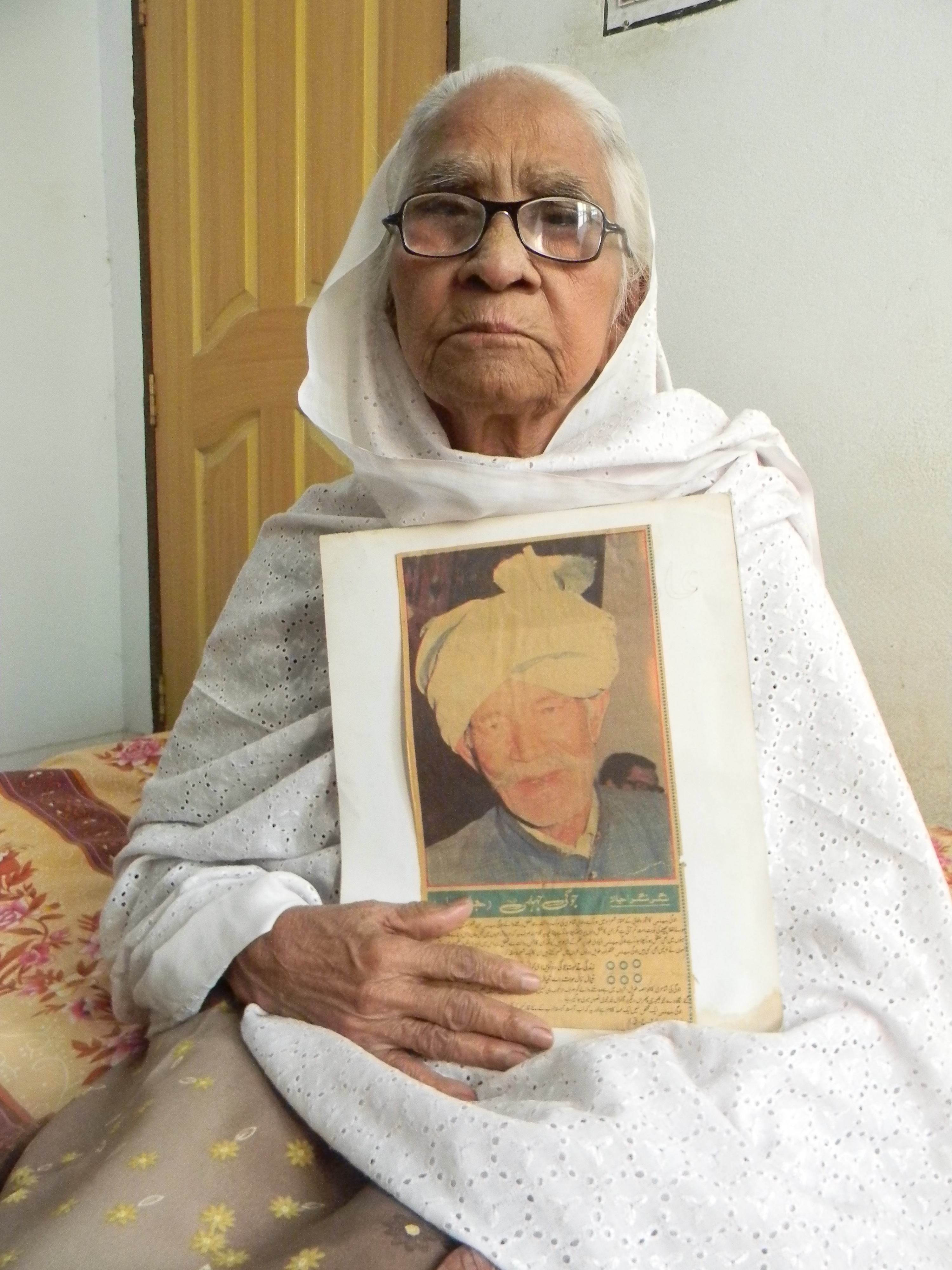 Jogi Jehlmi's Wife